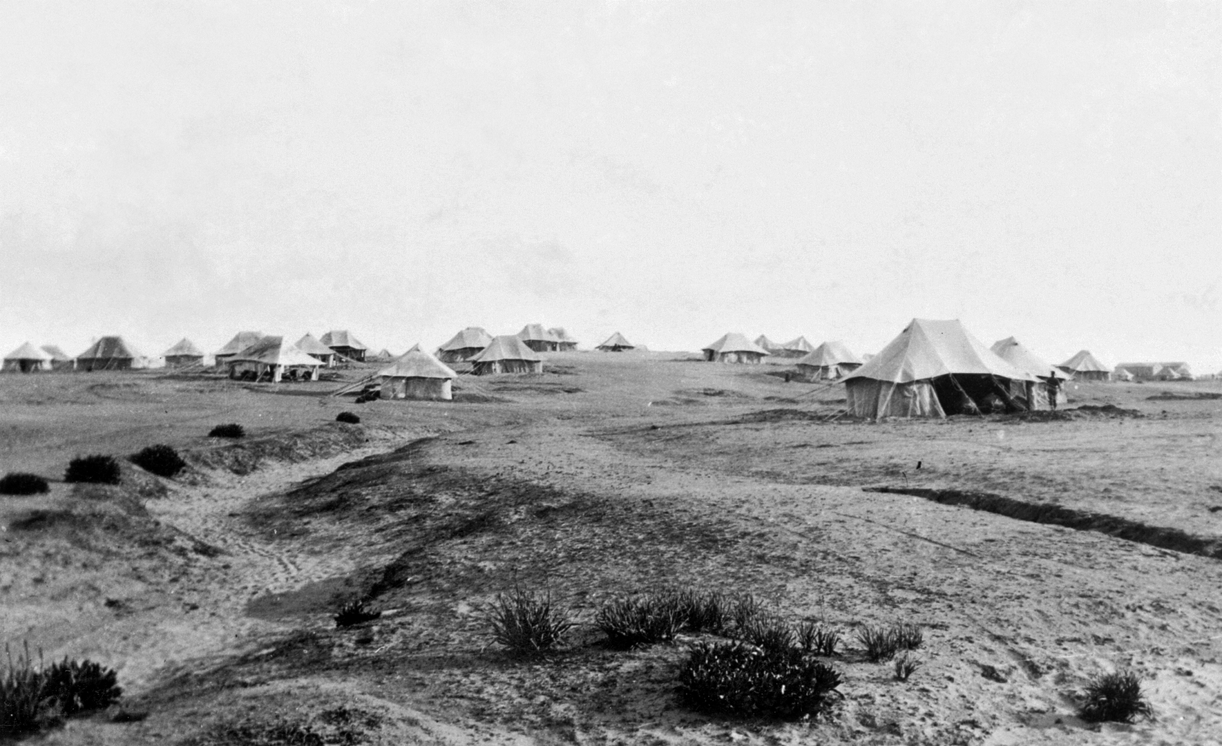 015 1941 - Small part of Beit Jirja Camp, Palestine (by Dvr Tom Beazley)